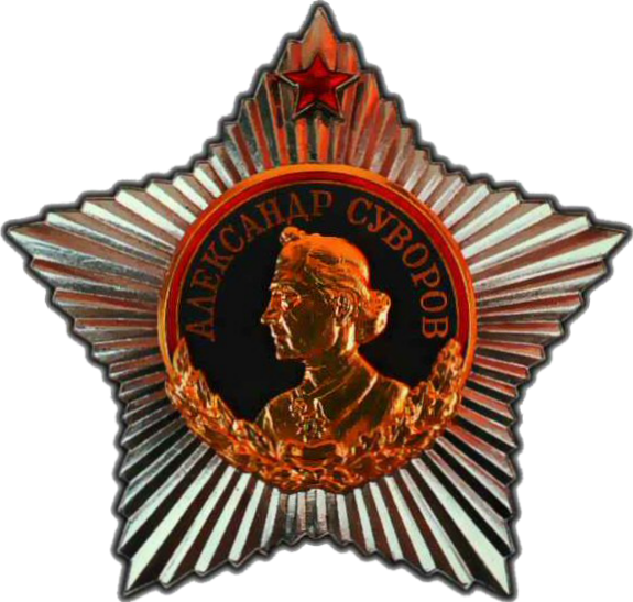 Order of Suvorov 1st class, 1942 - 2010.